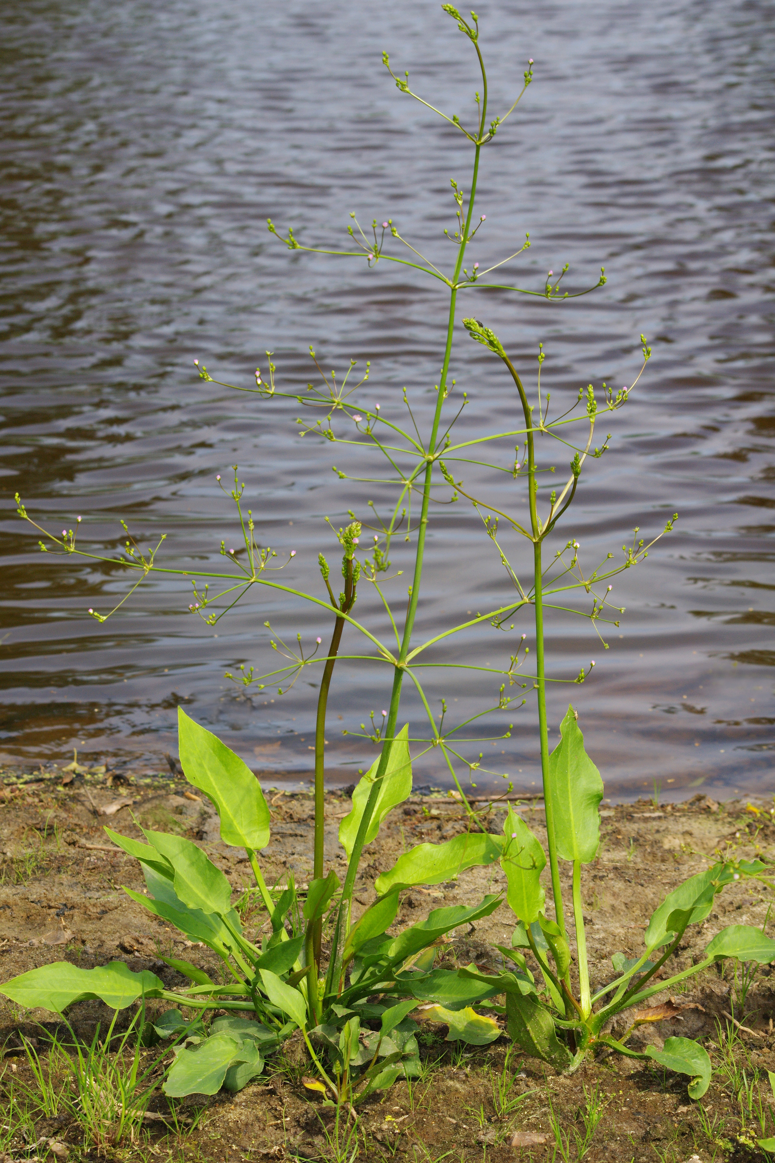 Habitus of Common Water-plantain, Alisma plantago-aquatica, with fully developed inflorescence (but closed blossoms in the morning).